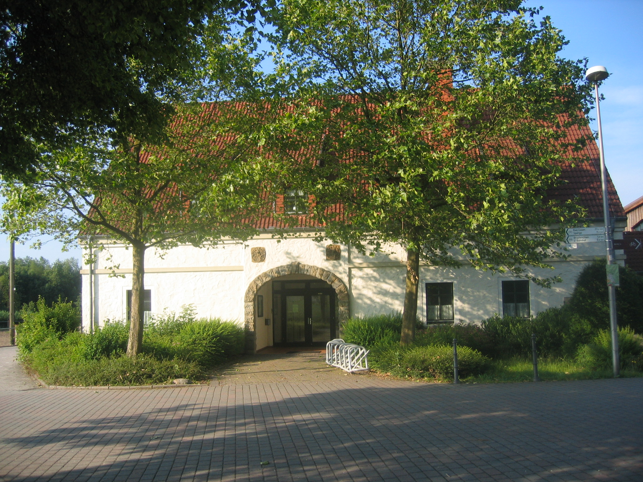 Bruchmühlen Castle in Melle-Bruchmühlen, District of Osnabrück, Lower Saxony, Germany.